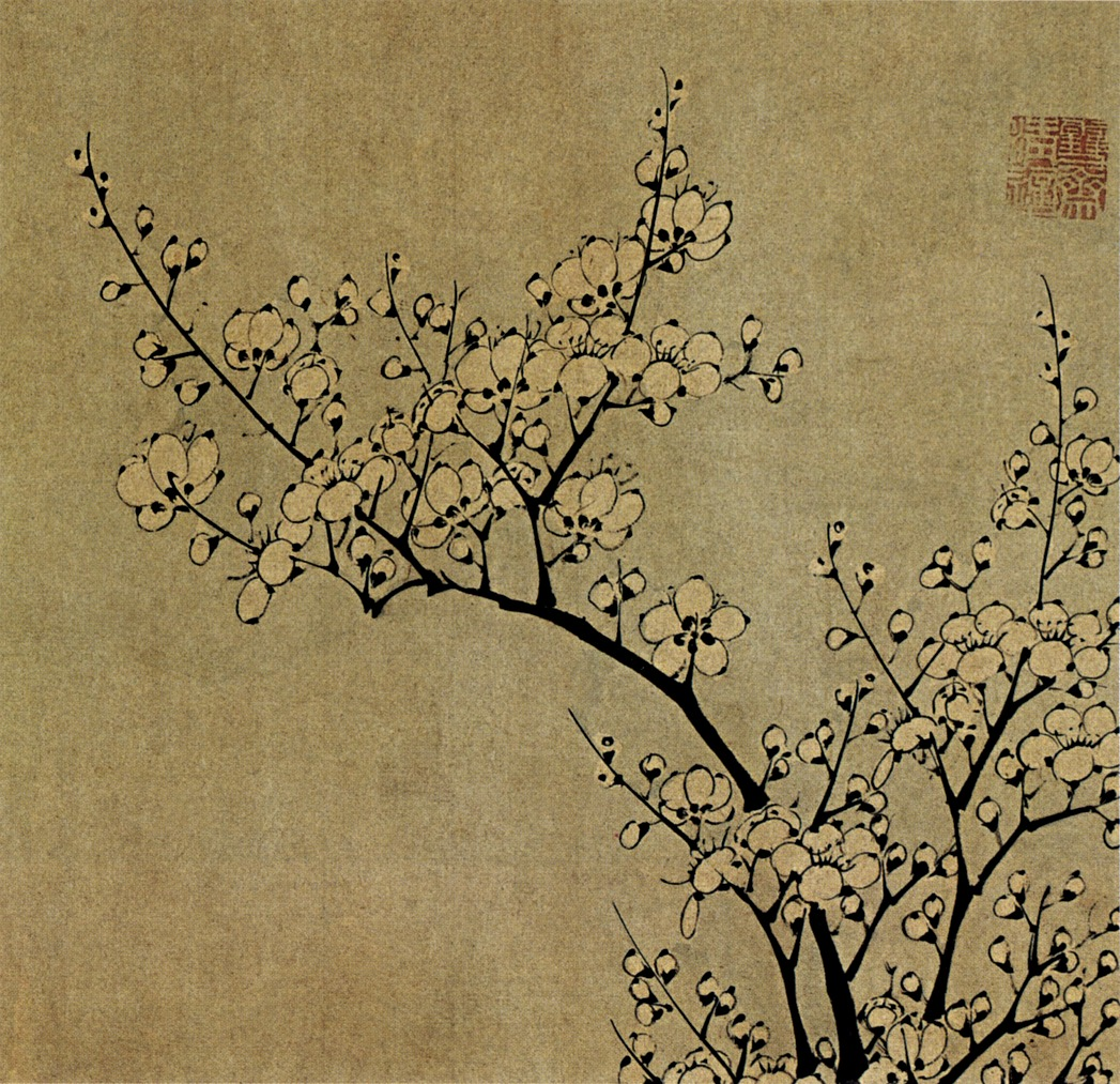 Plum Blossoms, scroll, color on paper, total scroll length 10.95 m., height 29 cm. 0ne of 24 total. Located at the Xiling Society of Seal Arts